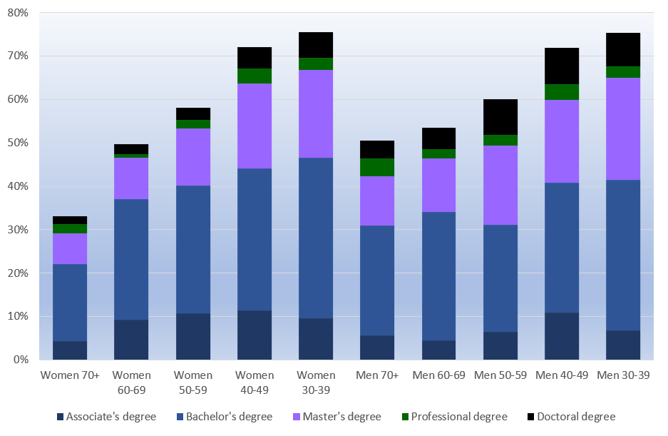 data